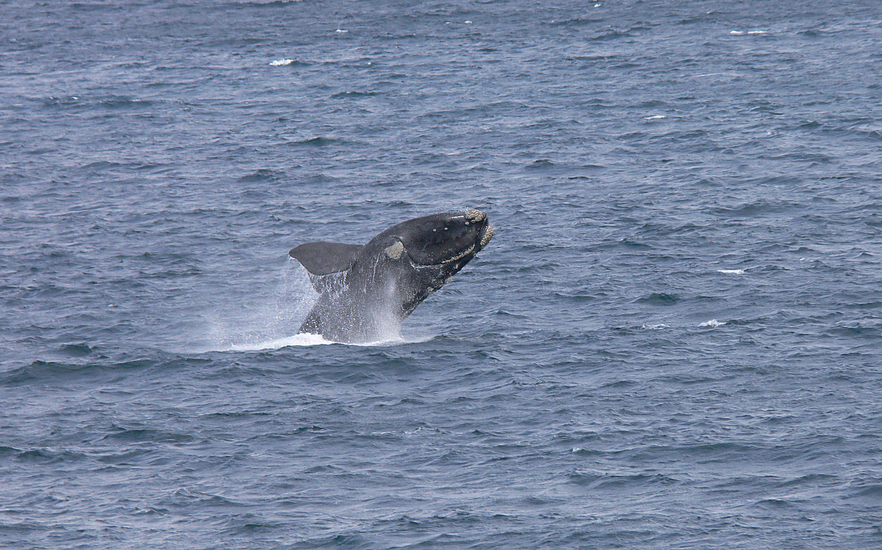 Southern Right Whale, (Eubalaena australis), de Hoop Nature Reserve, Western Cape, Southafrica